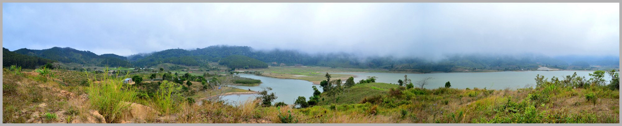 P'ro lake - Don Duong District, Lam Dong Province, Viet NamTiếng Việt: Hồ thủy lợi P'ro. Đơn Dương, Lâm Đồng, Việt nam